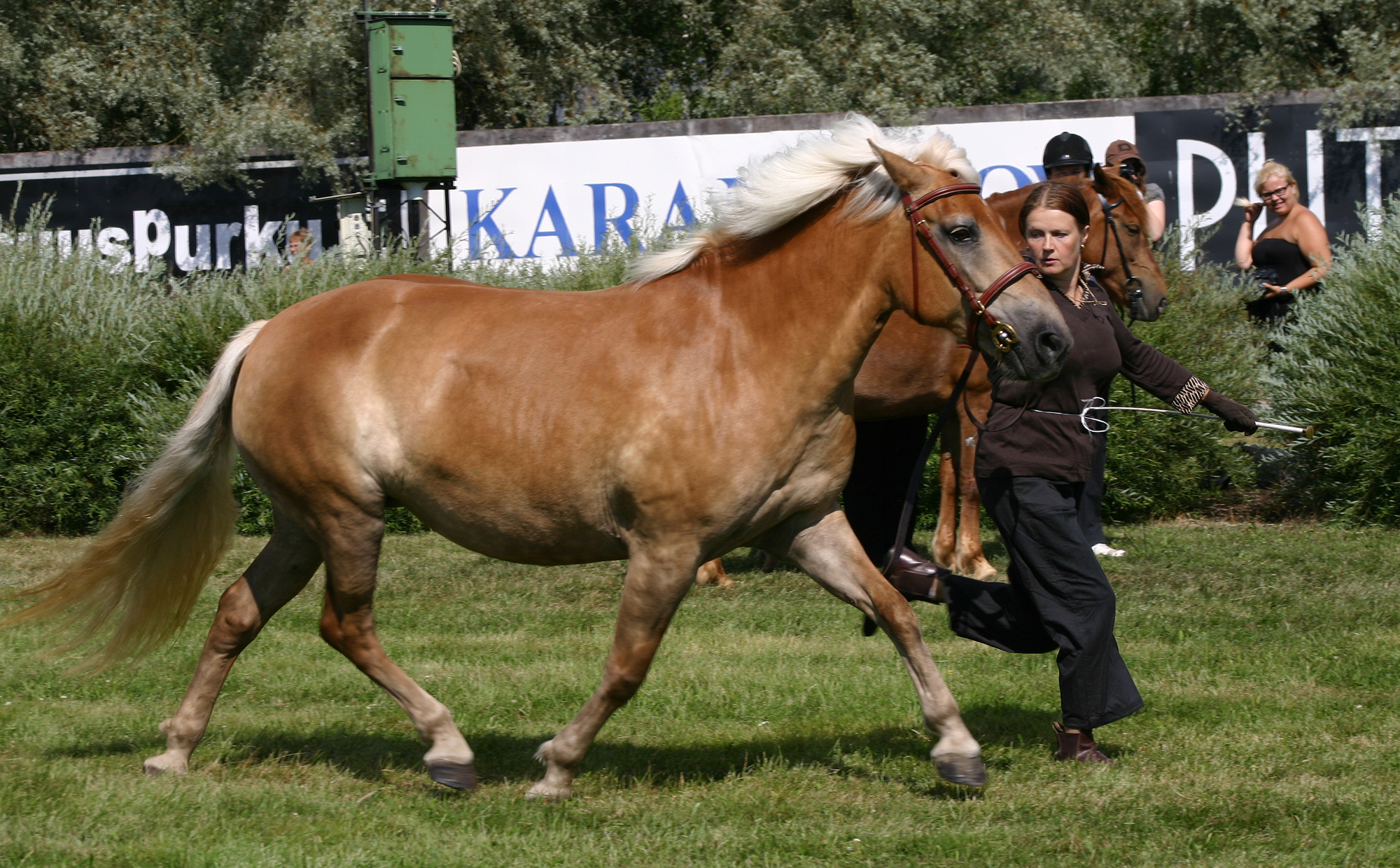 A 8-year-old Finnhorse mare presenting her trot. Sired by a trotter section stallion, is where those movements come from!